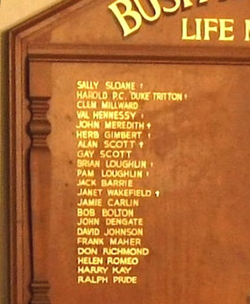 Life members of the Sydney, Australia Bush Music Club - as at 2014 (detail from